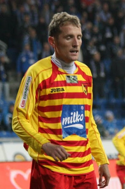 Montenegrin football player Luka Pejović (Лука Пејовић)